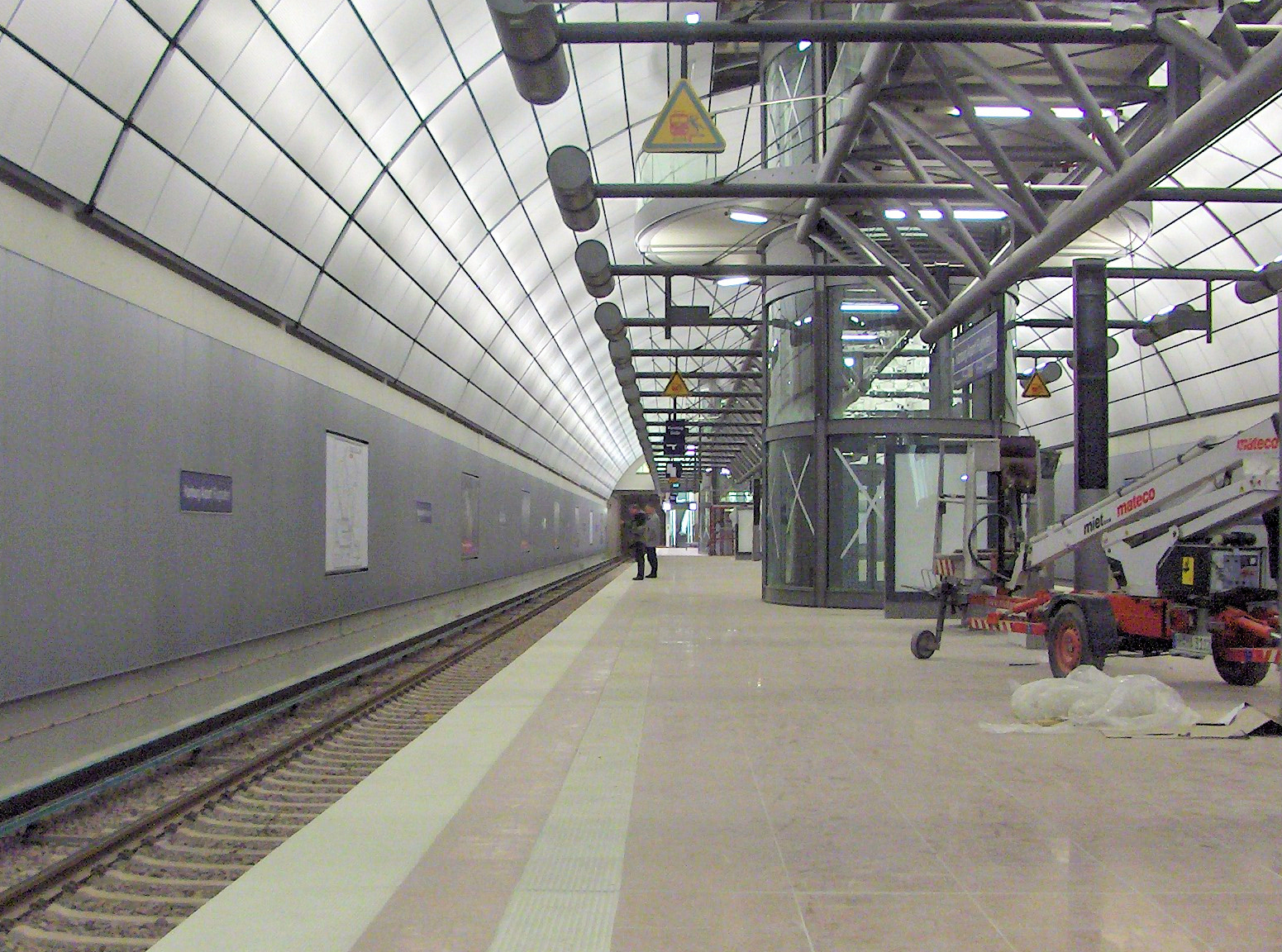 Platform of the station Hamburg Airport one month before commissioning of the passenger operation.